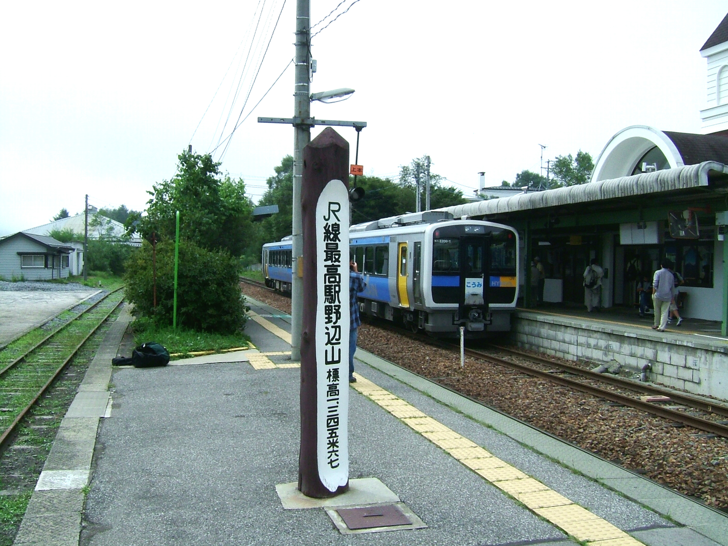 The platforms at Nobeyama Station on the Koumi Line in Minamimaki village, Nagano prefecture, Japan